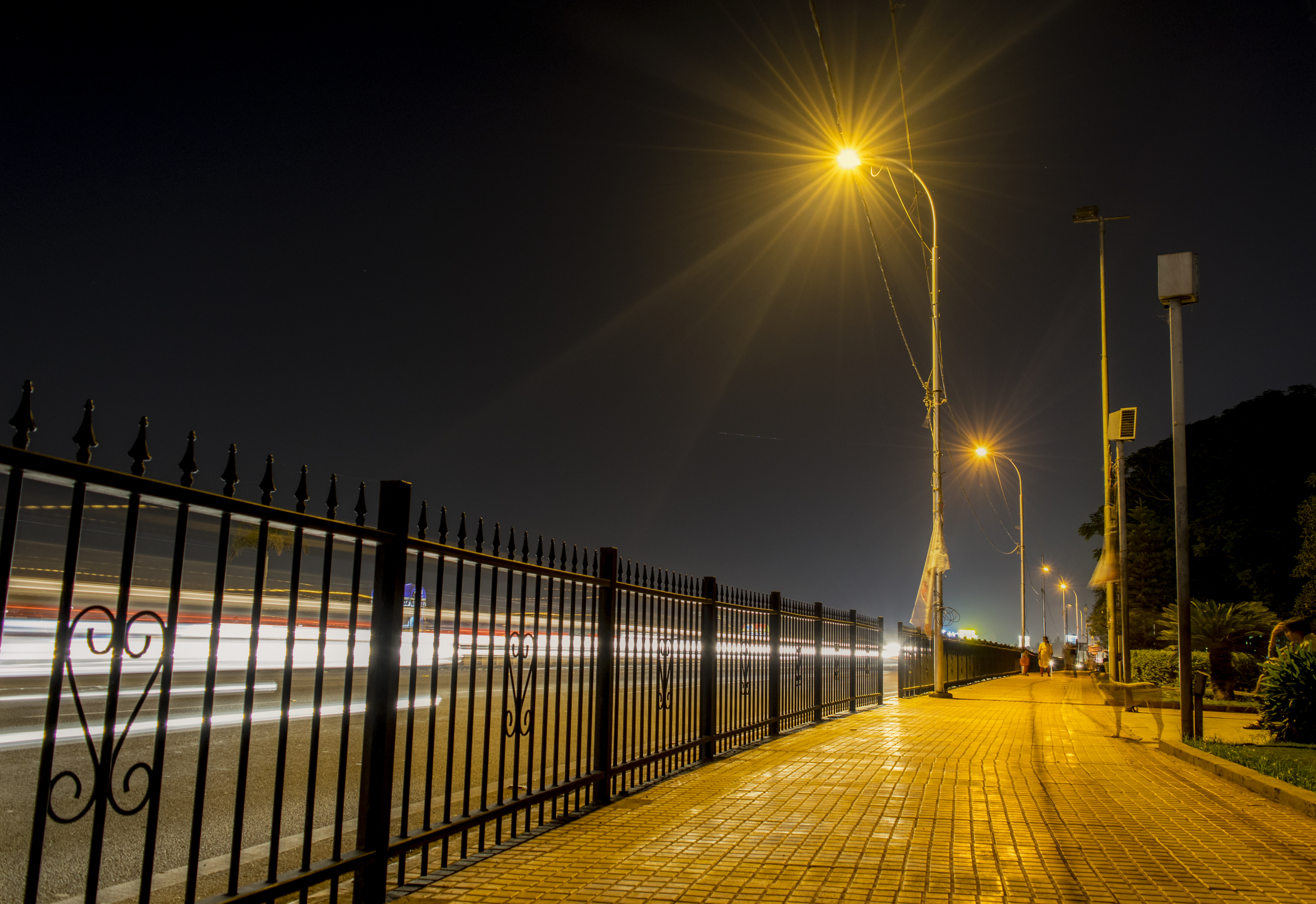 Footpath at hussain sagar road